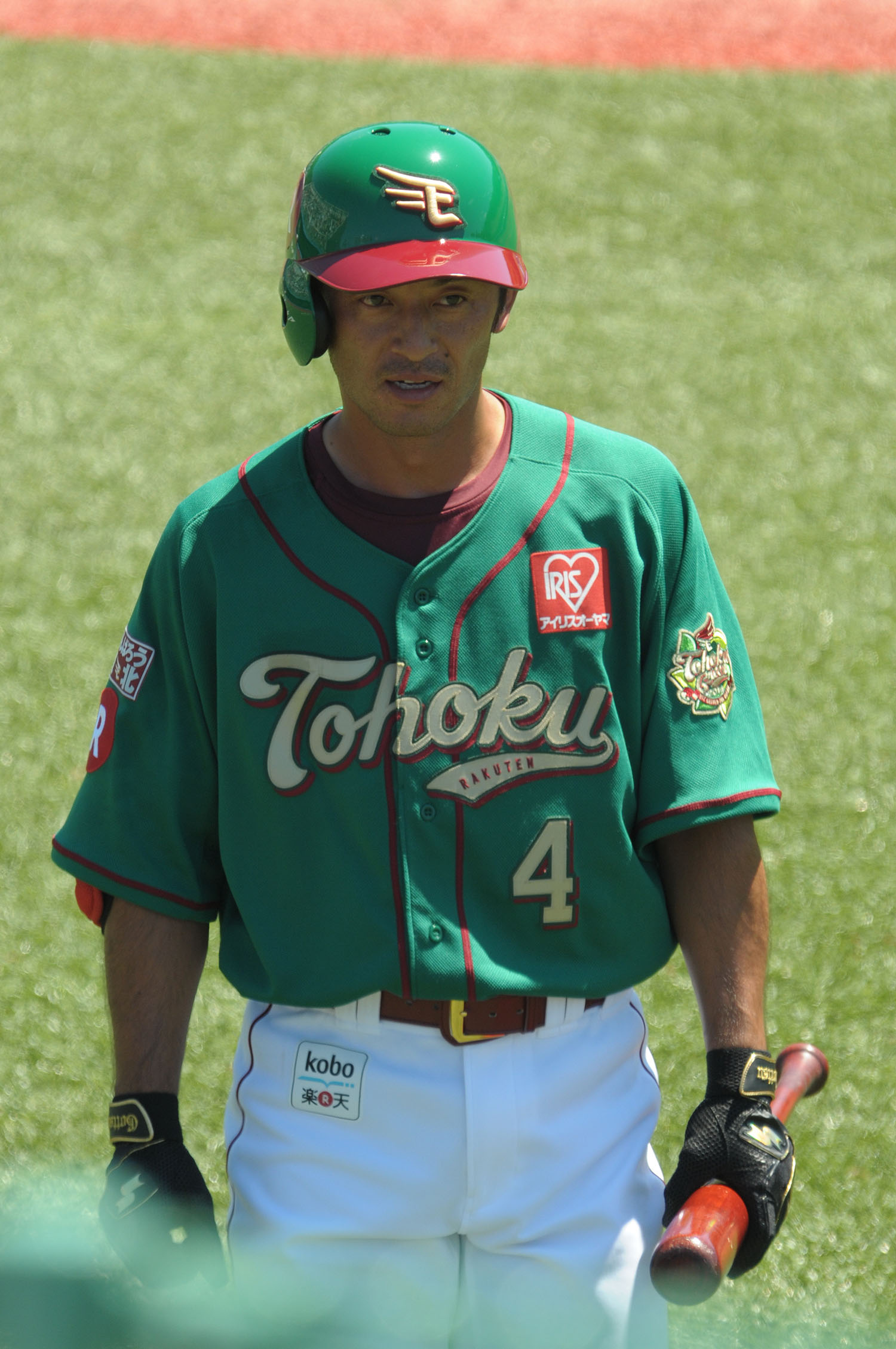 Mitsutaka Gotoh, infielder of the Tohoku Rakuten Golden Eagles, at Mizubayashi Green Stadium.